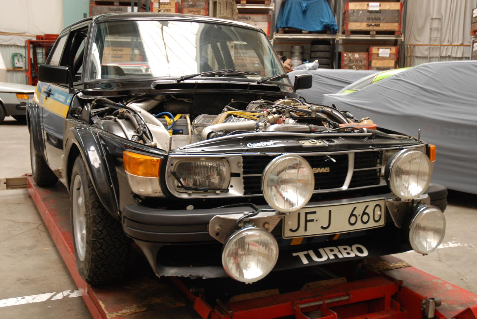 A Saab 99 Tubro Rally car at the Saab Museum in Trollhättan, Sweden.